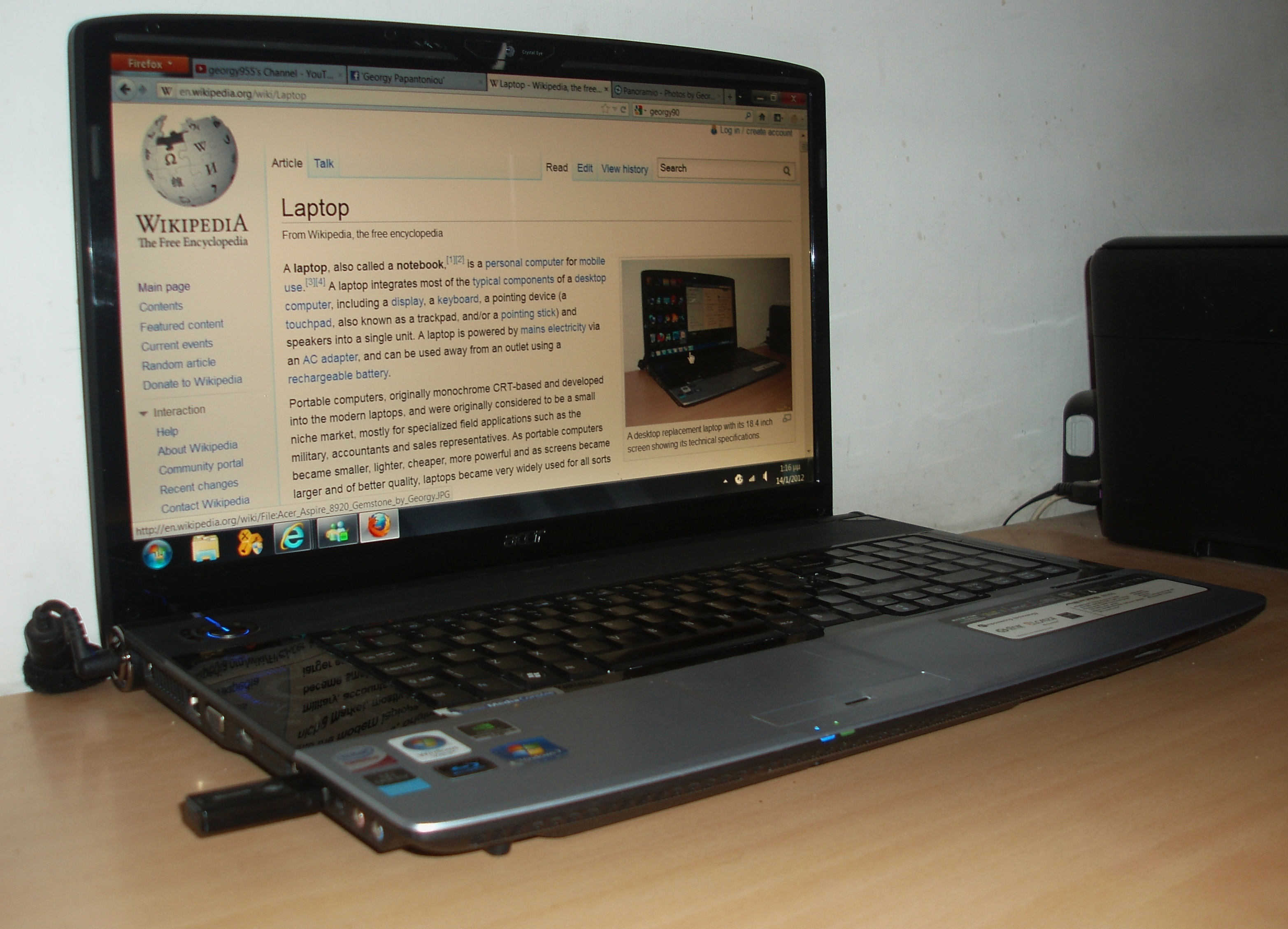 Acer Aspire 8920 (with 18.4 inch screen) showing its desktop on Windows 7.